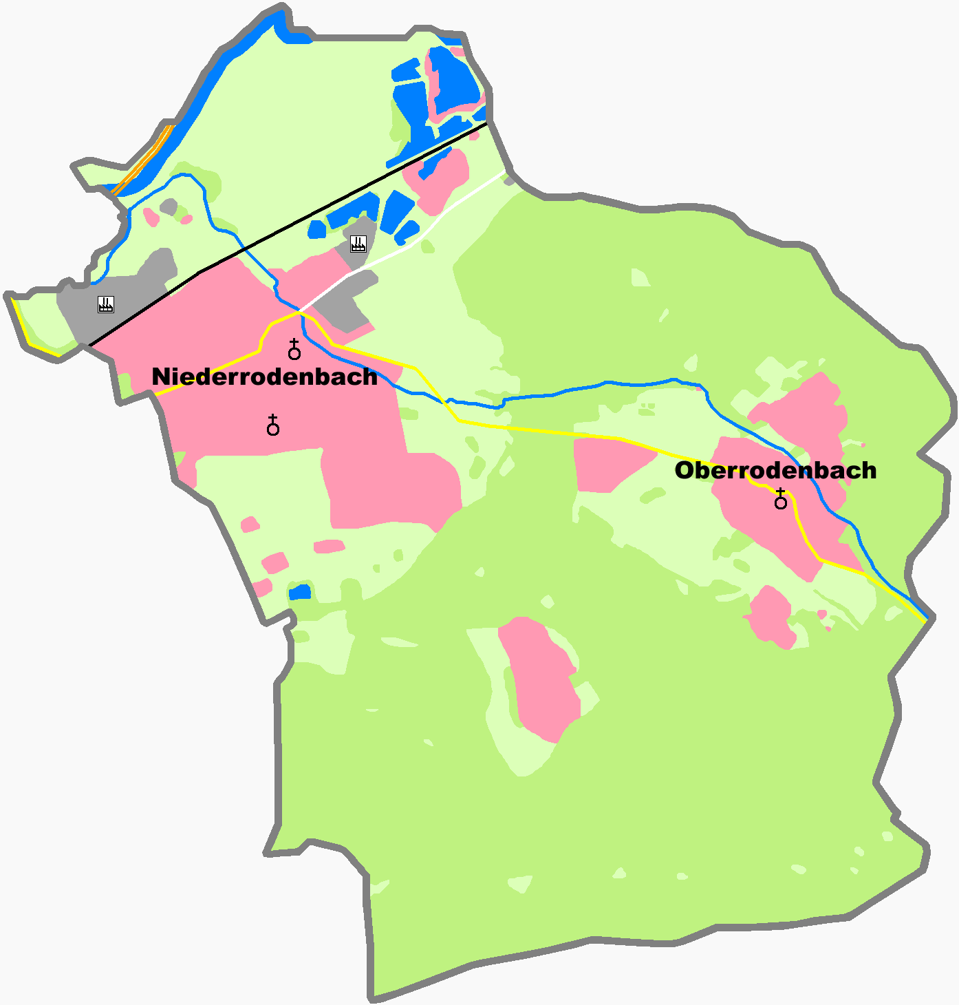 Municipal area of Rodenbach Grassland, Meadow Settlement area Industrial area Forest Body of water Municipal border Freeway Main street Side street Railway Industrial park Church